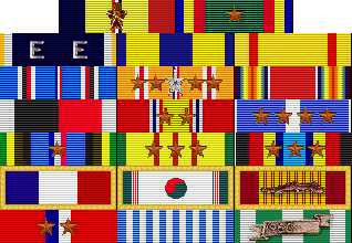 Awards and Decorations of the battleship USS New Jersey (BB-62) From left to right, in order of descending rows: Combat Action Ribbon with 1 Gold Star and Navy Unit Commendation with Bronze Star with 1 Gold Star Navy "E" Ribbon, Navy Expeditionary Medal, China Service Medal American Campaign Medal, Asiatic-Pacific Campaign Medal with 1 Silver and 4 Bronze Stars, World War II Victory Medal Navy Occupation Service Medal, National Defense Service Medal with 2 Bronze Stars, Korean Service Medal with 4 Bronze Stars Armed Forces Expeditionary Medal, Vietnam Service Medal with 3 Bronze Stars, Sea Service Deployment Ribbon with 3 Bronze Stars Philippine Presidential Unit Citation, Korean Presidential Unit Citation, Republic of Vietnam Gallantry Cross Unit Citation with Palm Philippine Liberation Medal with 2 Bronze Stars, United Nations Service Medal, Republic of Vietnam Campaign Medal This is based the awards page of the website ; however, no photograph material from that page was used to create this version. This image was created by me using the various ribbons uploaded to wikipedia from the now departed User Husnock; to the best of my knowlage, all the ribbons are in the public domain.